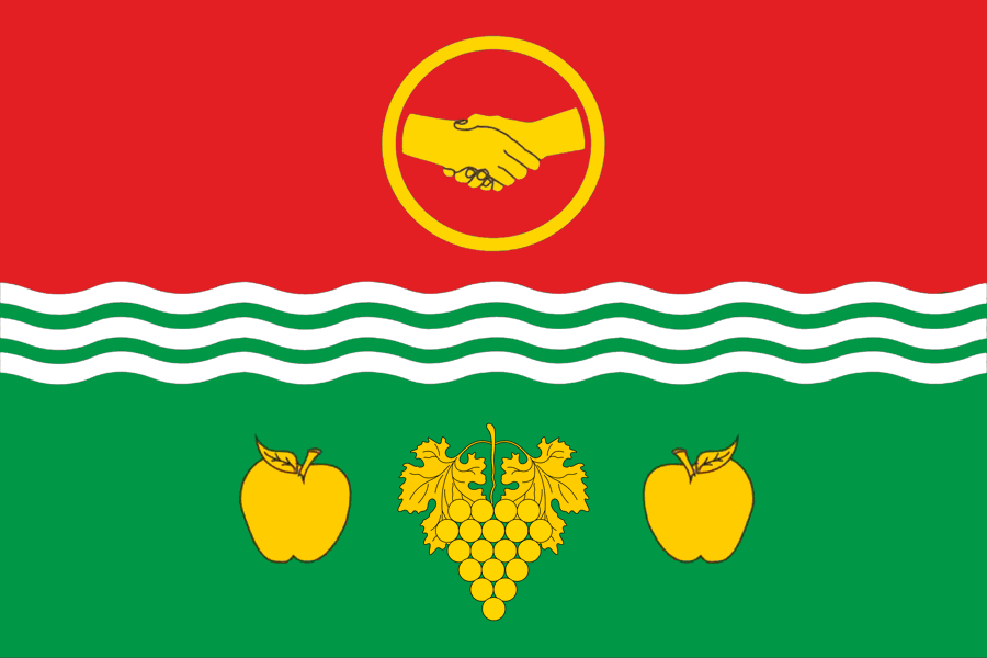 Flag of Bakhchisaray rayon, Crimea, Russia